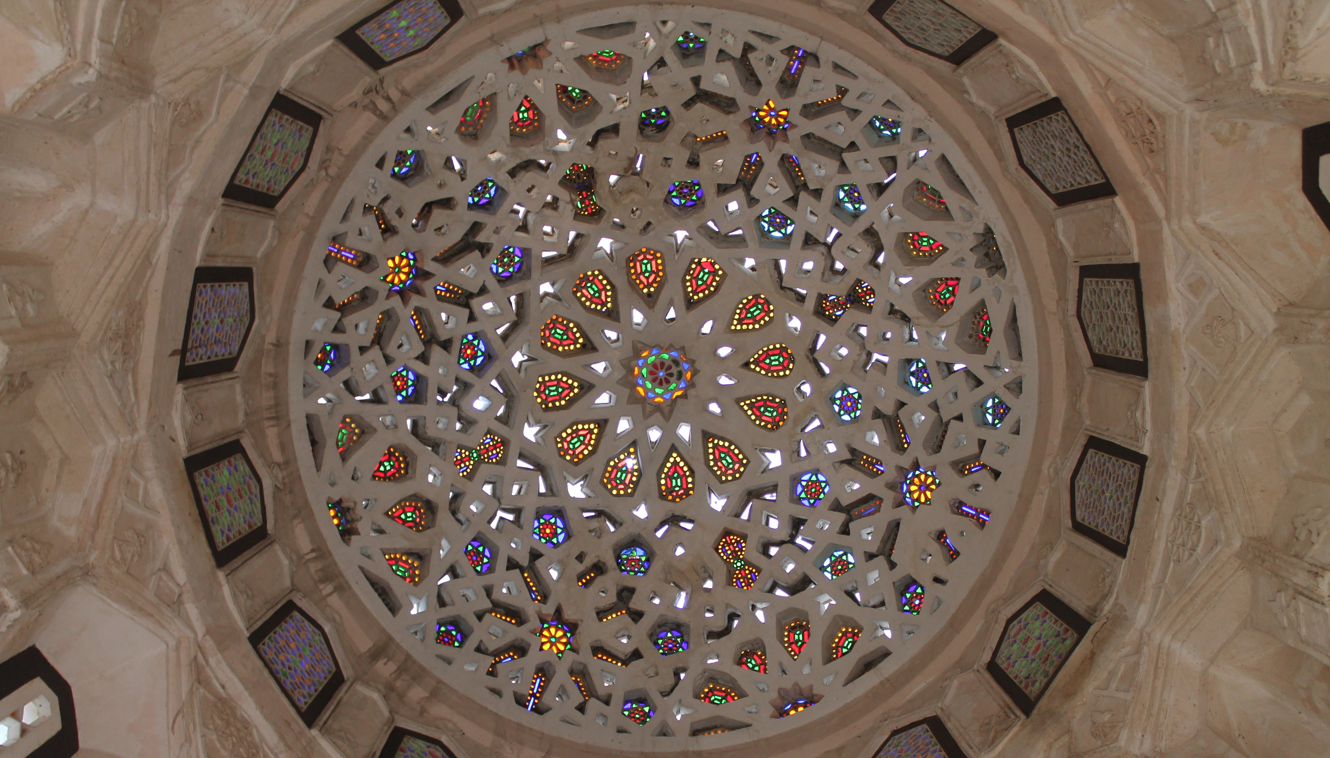 Dome with colored glass on the grounds of the Bayt al-Suhaymi mansion and museum.